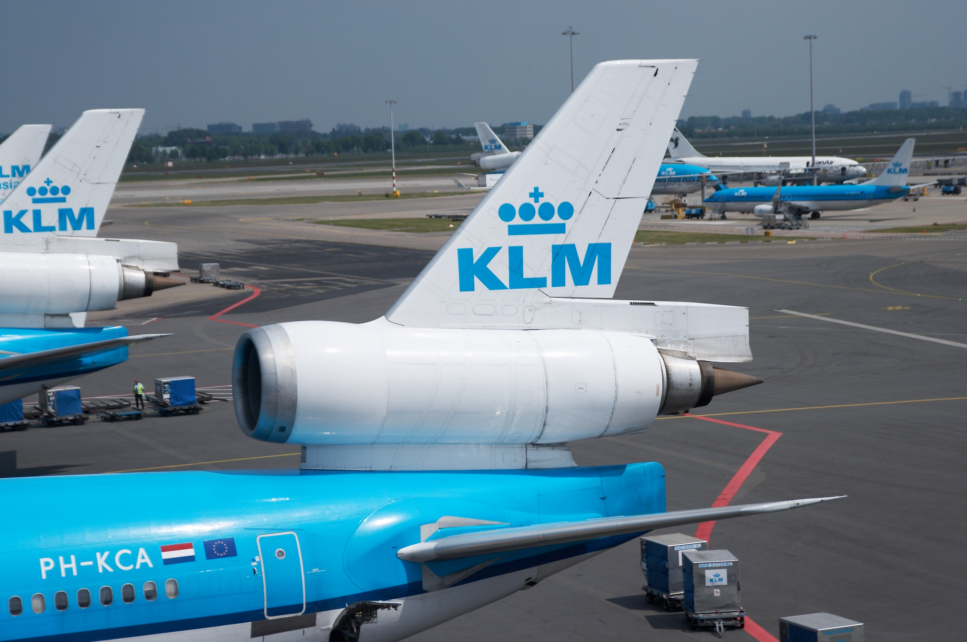 Aircraft: McDonnell Douglas MD-11 Airline: KLM - Royal Dutch Airlines Registration/CN: PH-KCA (cn 48555/557) Place: Amsterdam - Schiphol (AMS / EHAM)